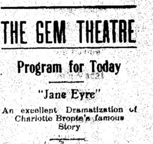 An advertisement by the "Theaterette" in the Moberly Monitor-Index (Moberly, Missouri) on 4 Aug 1910, Thu, Page 1 for the Thanhouser adaptation of Jane Eyre.